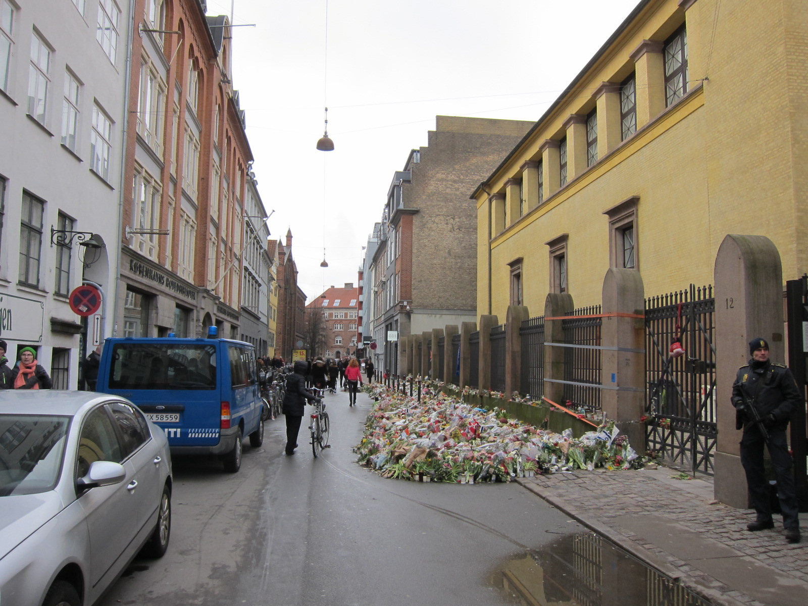 Flowers in front of the Copenhagen Syngagoue in March after the 2015 Copenhagen attacks in February and guarded policeman.